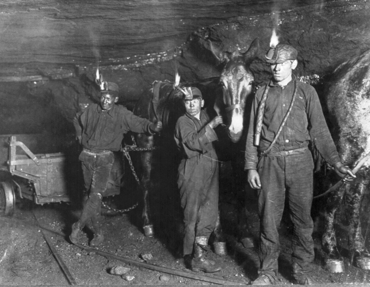 Child coal miners - drivers and mules, Gary, W. Va., mine.